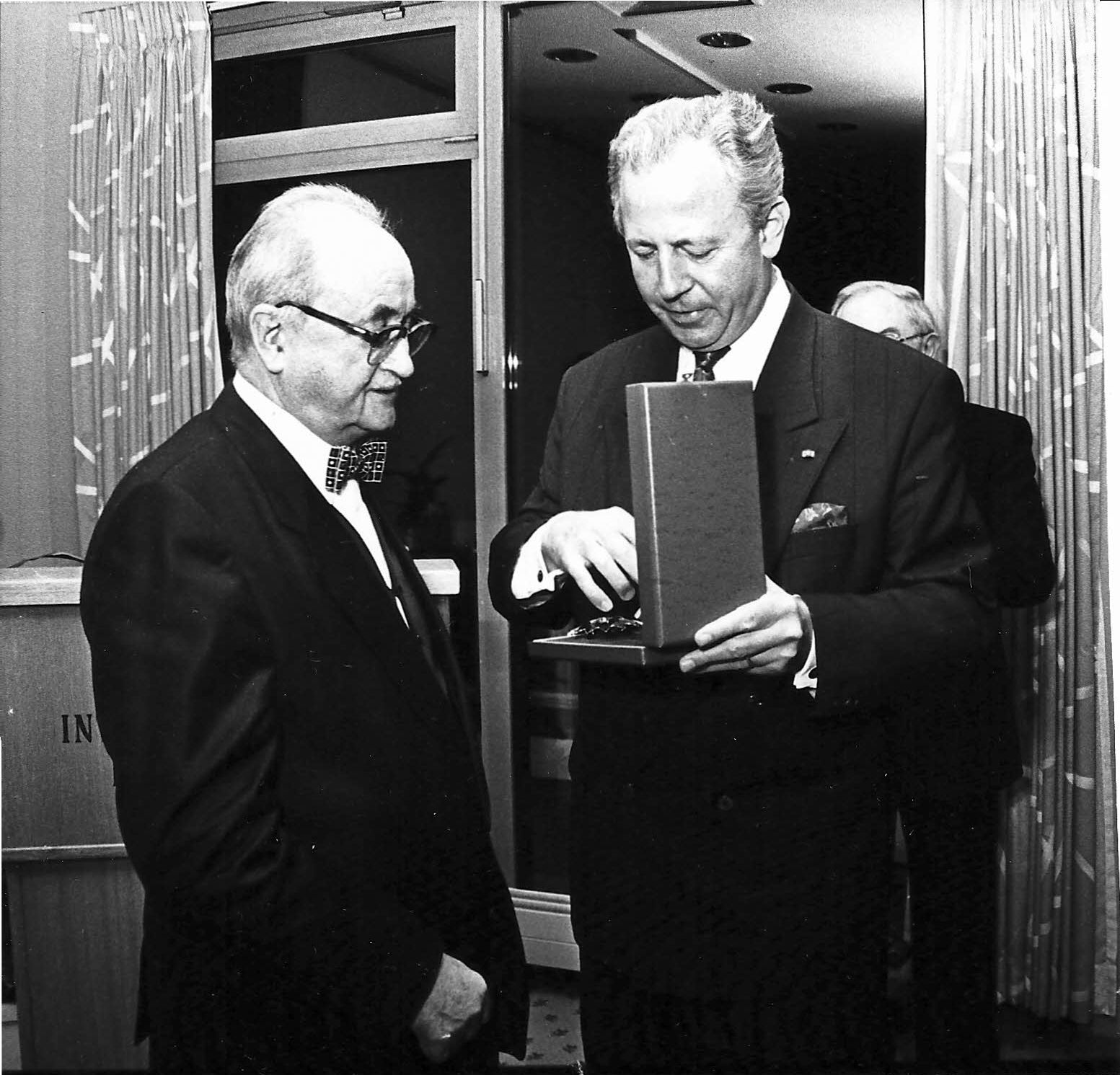 François Visine (left) und Jacques Santer (right).